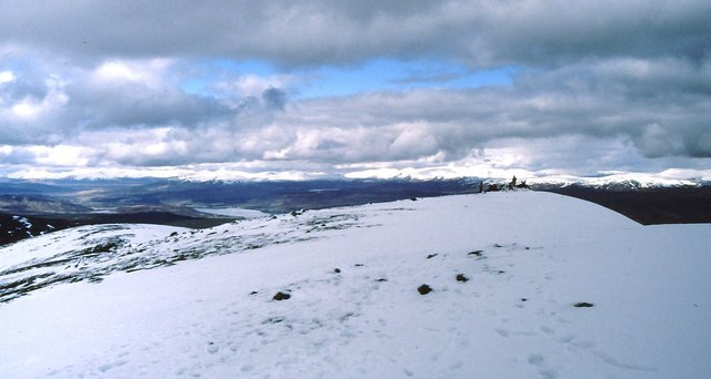 Meall Garbh [Carn Mairg group] One of many Meall Garbhs [rough hill] in the Highlands. From this one there is a fine view towards Loch Rannoch and the distant Ben Alder group.